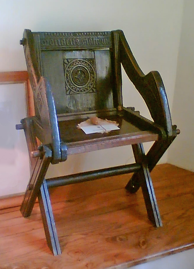 The original surviving Glastonbury chair, now in the Bishop's Palace, Wells